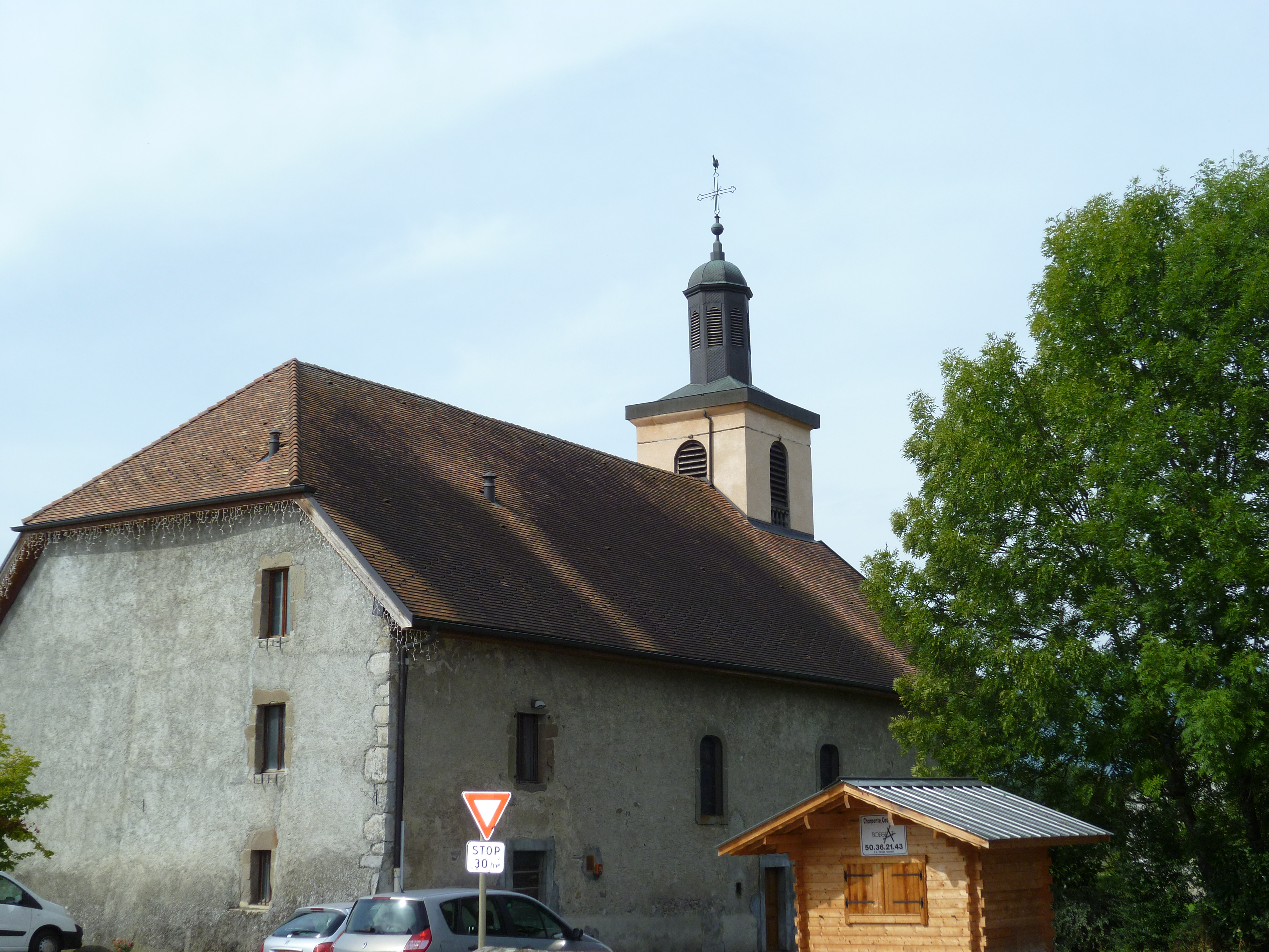 The church of Nangy in Haute-Savoie, France